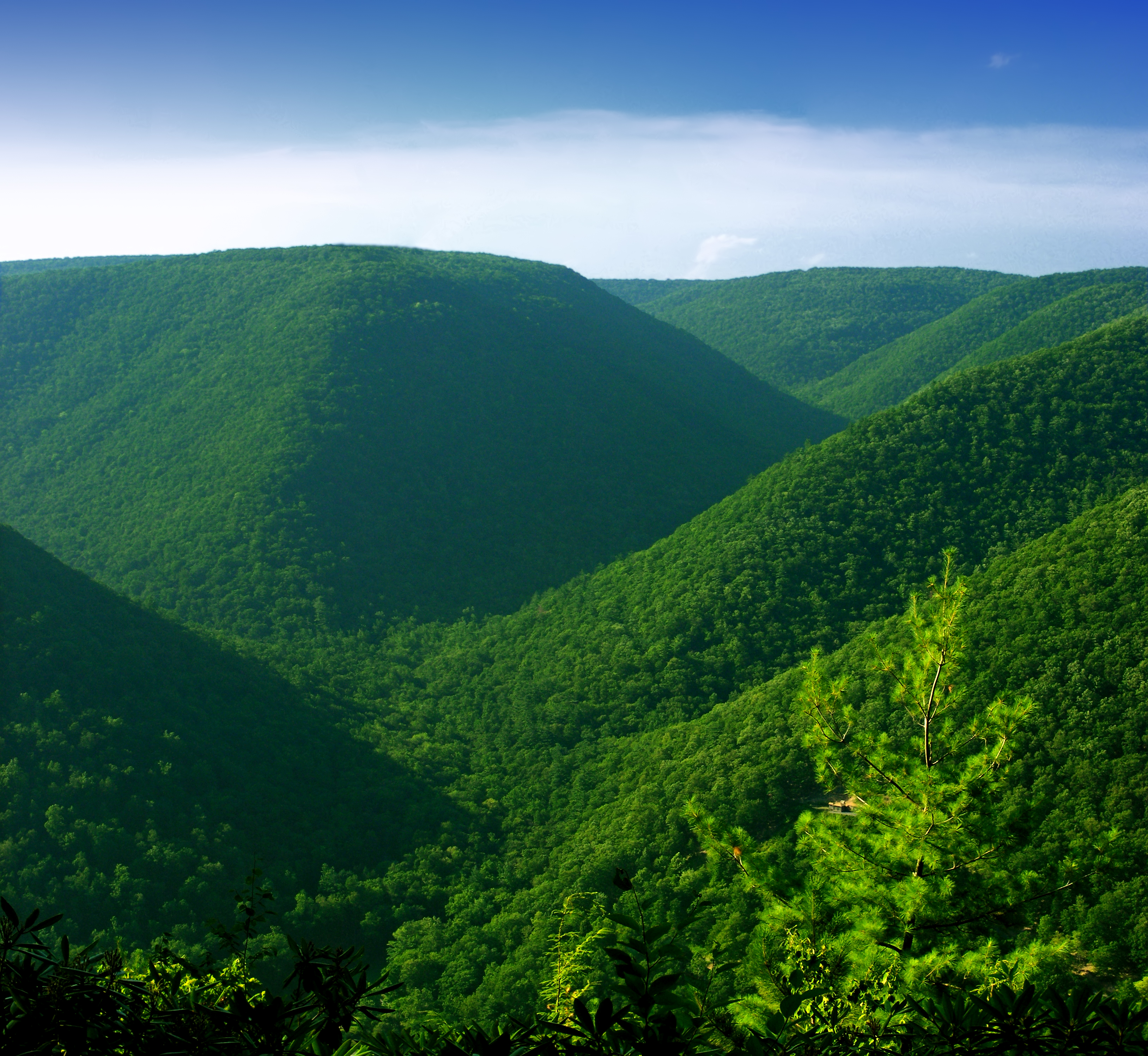 Jerry Ridge Vista, Elk State Forest, Cameron and Clinton Counties. The West Branch Susquehanna River, heard but unseen, runs through the valley.